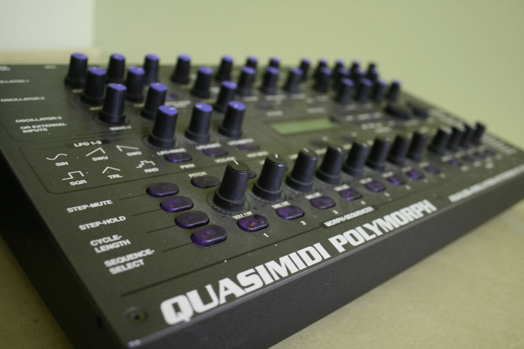 My personal Quasimidi Polymorph